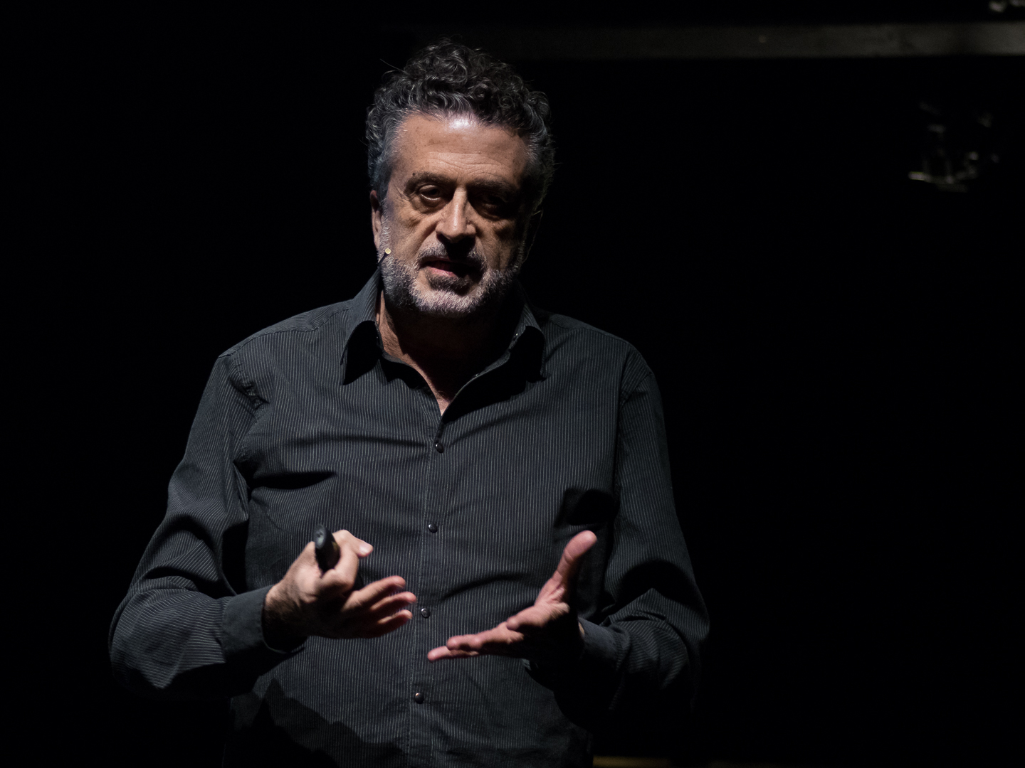 Cosmic grove (22)